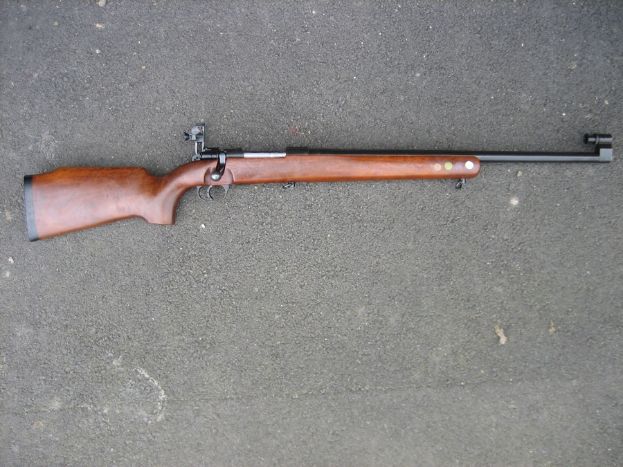 A photograph of the Danish Schultz & Larsen M69 Target Rifle in 7.62x51mm